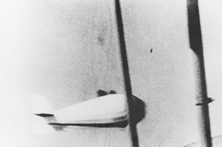 Removed caption read: Photo # NH 77431 "Spy basket" of USS Macon, 1934